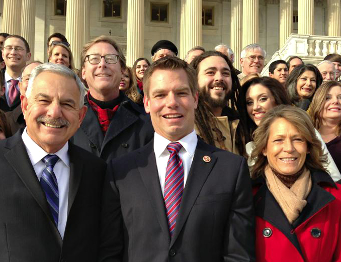 Representative Eric Swalwell on the Capitol Hill steps surrounded by close friends, family, and campaign staff.